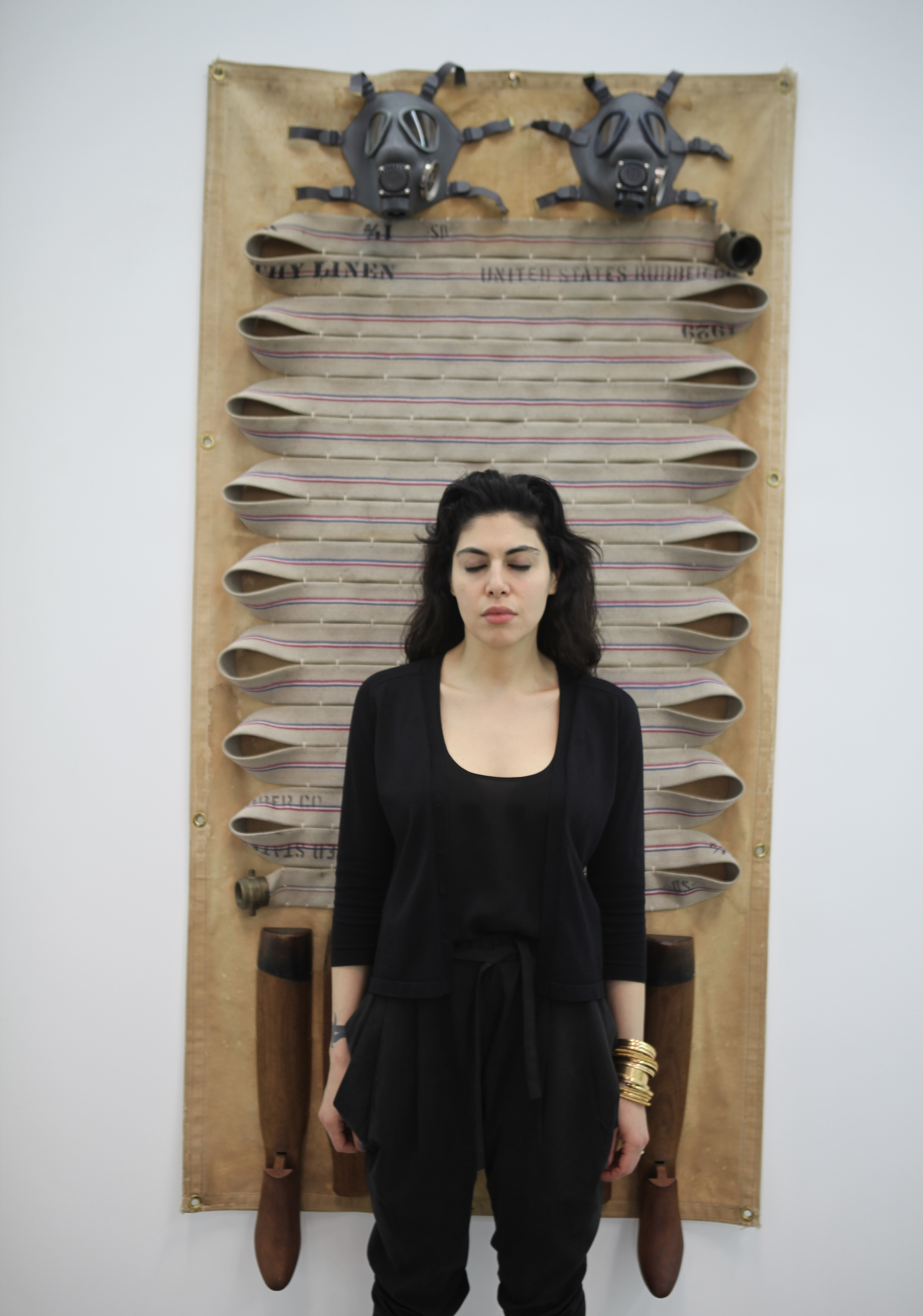 SARA RAHBAR, Photo By SUERAYA SHAHEEN, RESTLESS VIOLENCE,CARBON12,Dubai 2012